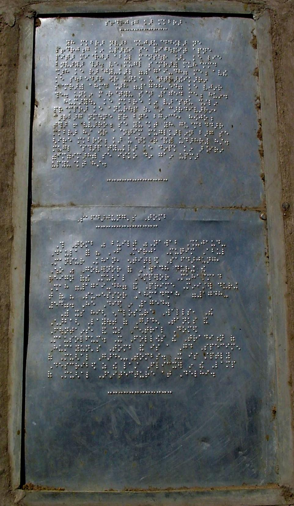 Headline text: s.drj:g k mkbr